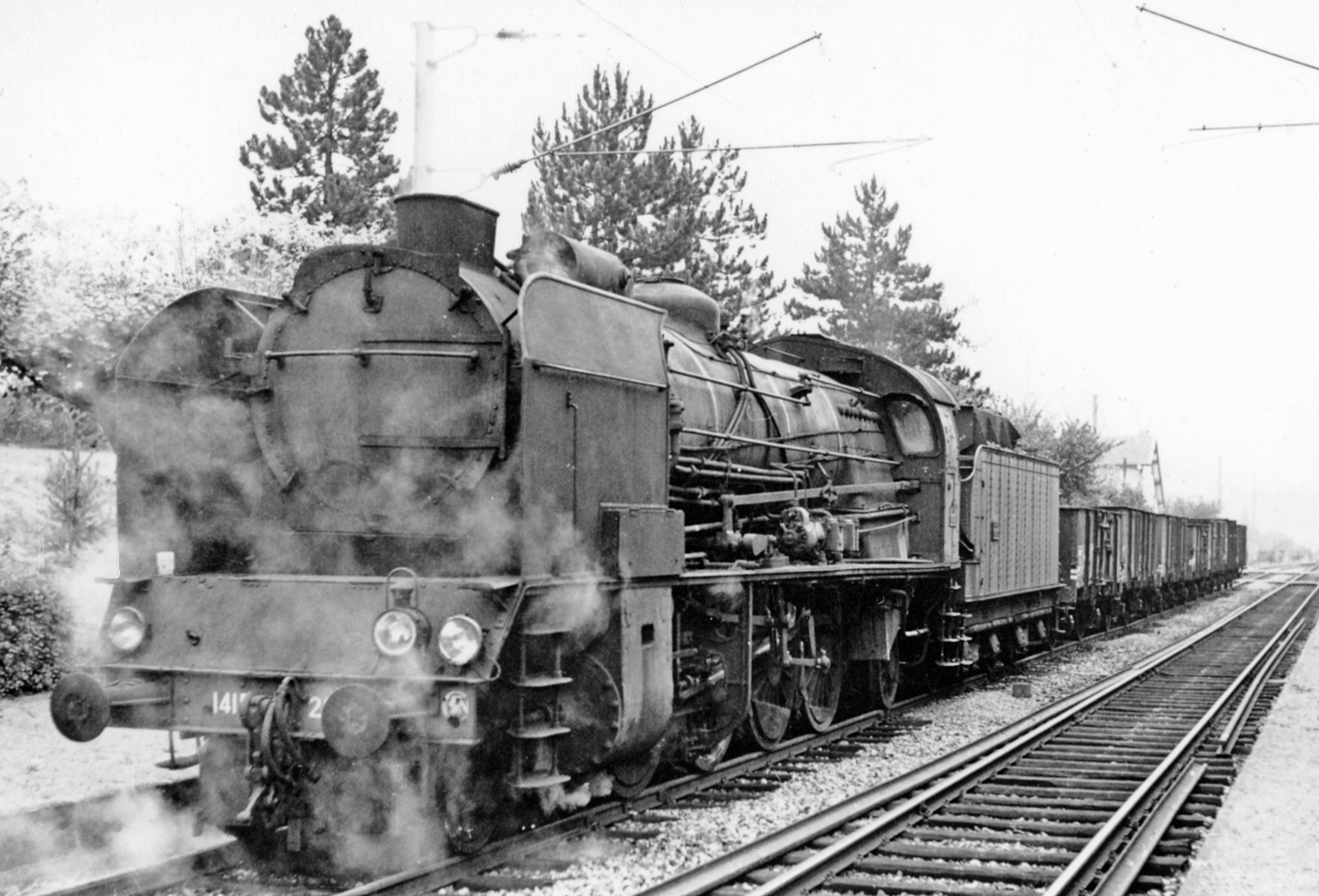 SNCF PLM 2-8-2 shunting at Oex (Haute-Savoie), on the Geneva - St Gervais line, 1958.